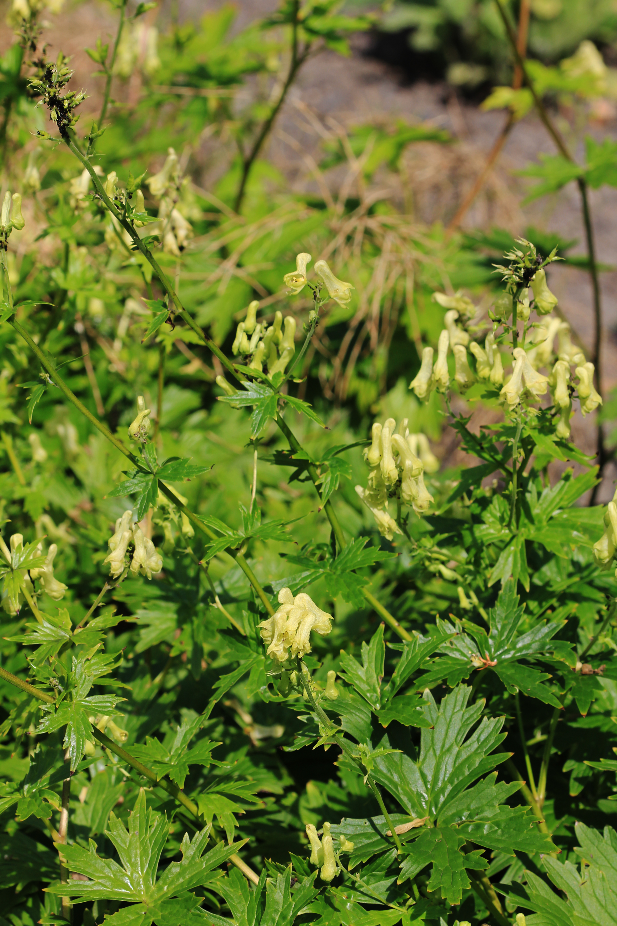 Flowering plants Aconitum lycoctonum from Botanical Garden of Charles University in Prague, Czech Republic